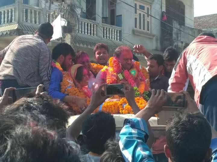 After wining the election